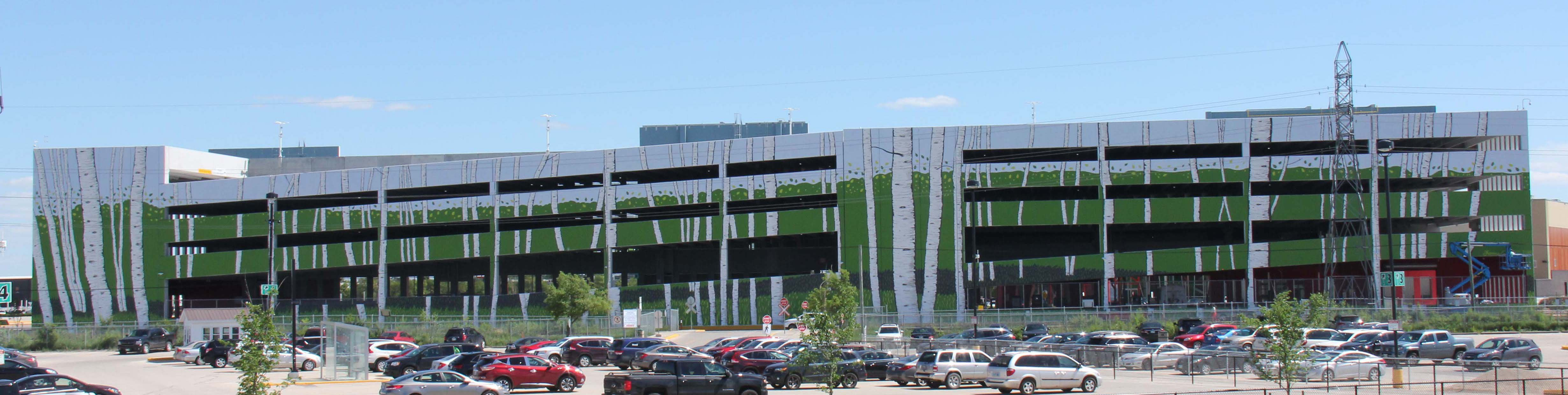 Birch tree mural covering the entire north face of the Club Regent Casino in Winnipeg, MB. This work is the largest mural in Manitoba.